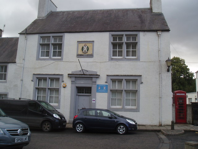 Former Drill Hall in Dunkeld